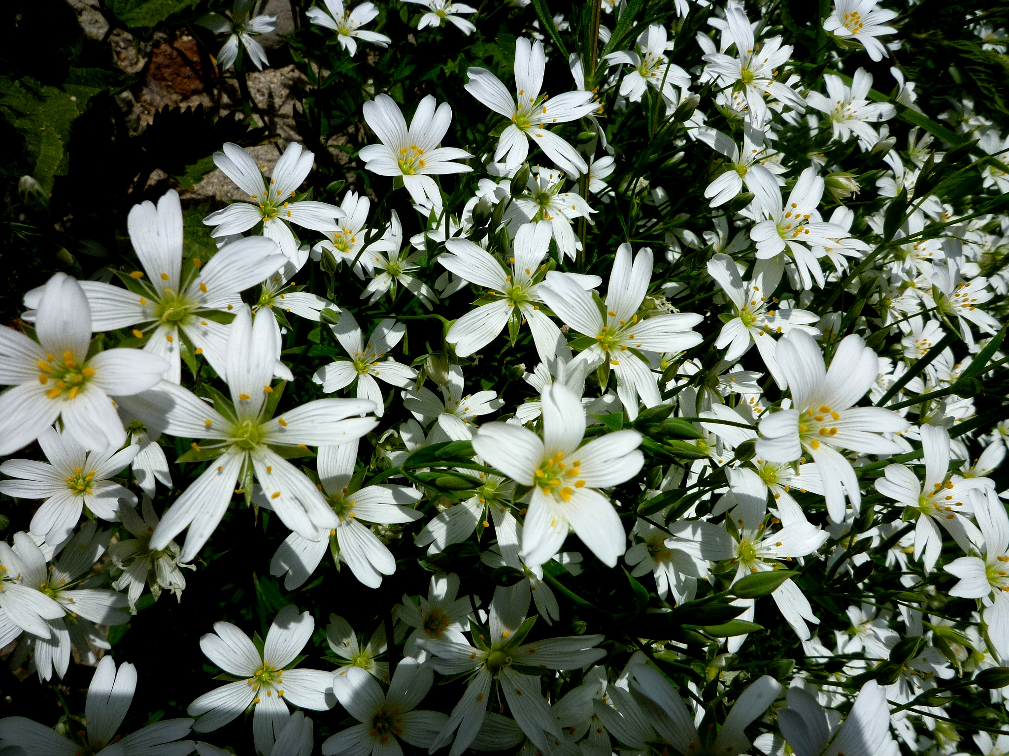 Stellaria holostea. In Fígols (Berguedà-Catalunya). To 1.640 m. altitude